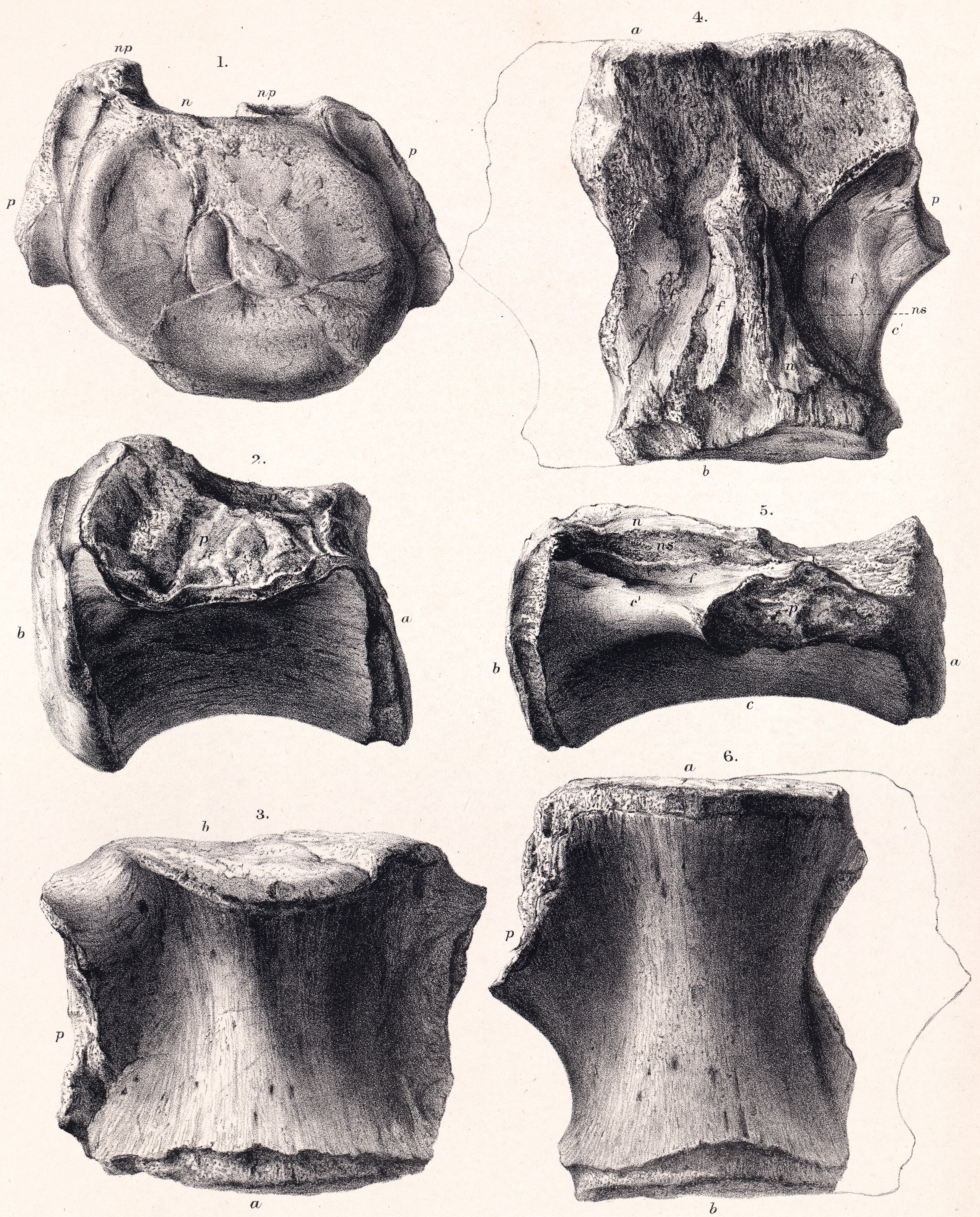 Bothriospondylus suffossus. Fig. 1. Hind view of terminal centrum of sacral vertebra. Fig. 2. Right side view of the same. Fig. 3. hæmal view of the same. Fig. 4. Neural view of mutilated centrum of sacral vertebra, restored in outline. Fig. 5. Right side view of the same. Fig. 6. hæmal view of the same, restored in outline. All the figures are of the natural size. From the Kimmeridge Clay at Swindon, Wilts. In the British Museum.